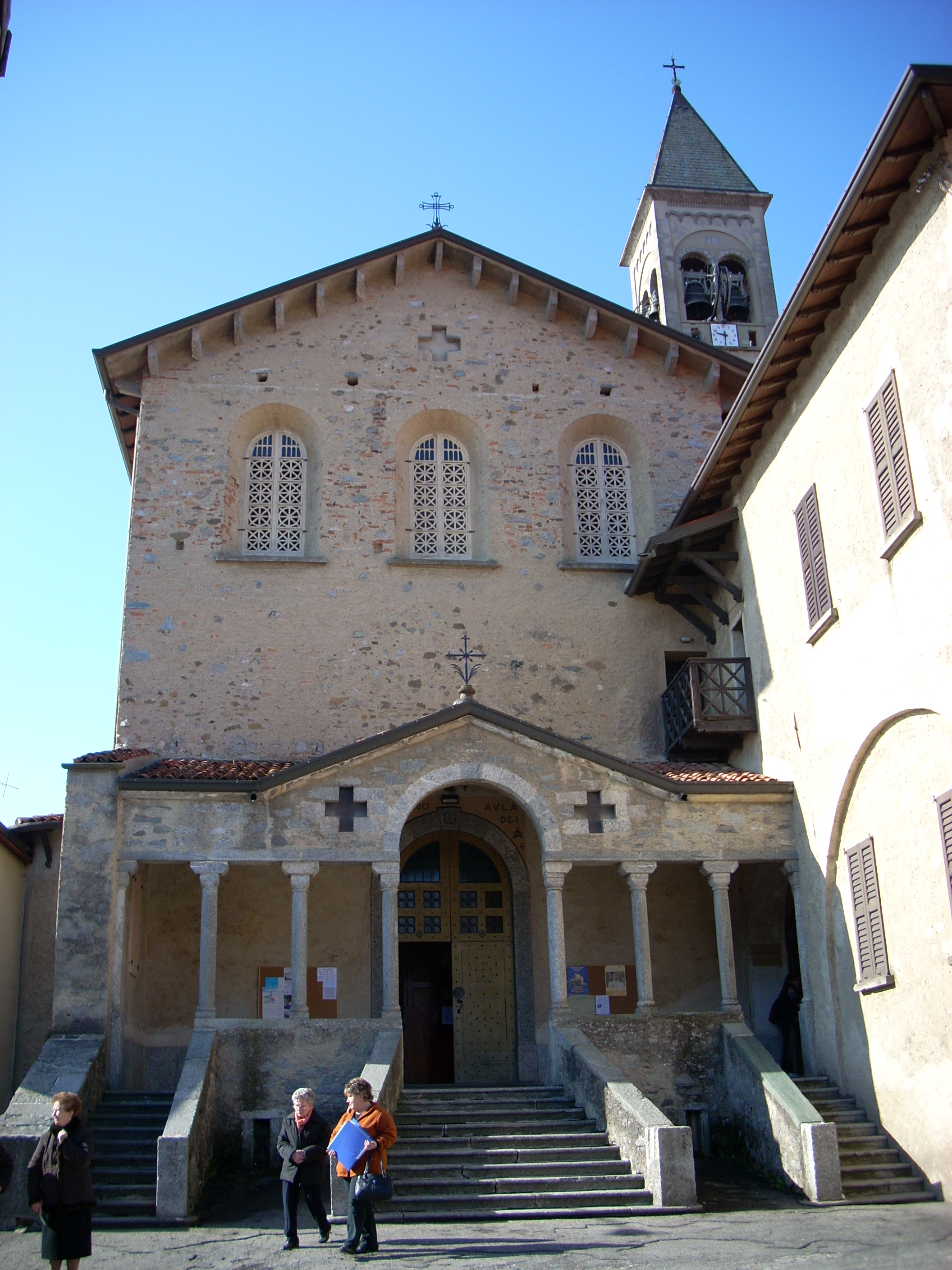 Parish Church of San Giovanni Evangelista, Perego, Lecco, Italy